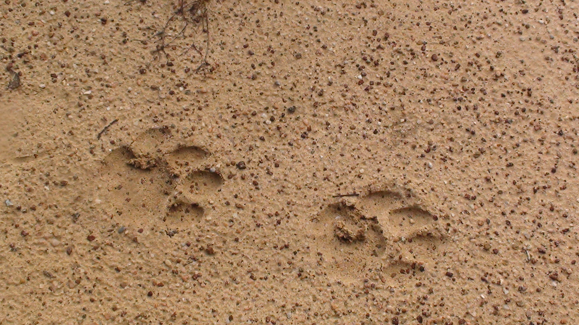 Tiger Paws in Bandhavgarh National Park